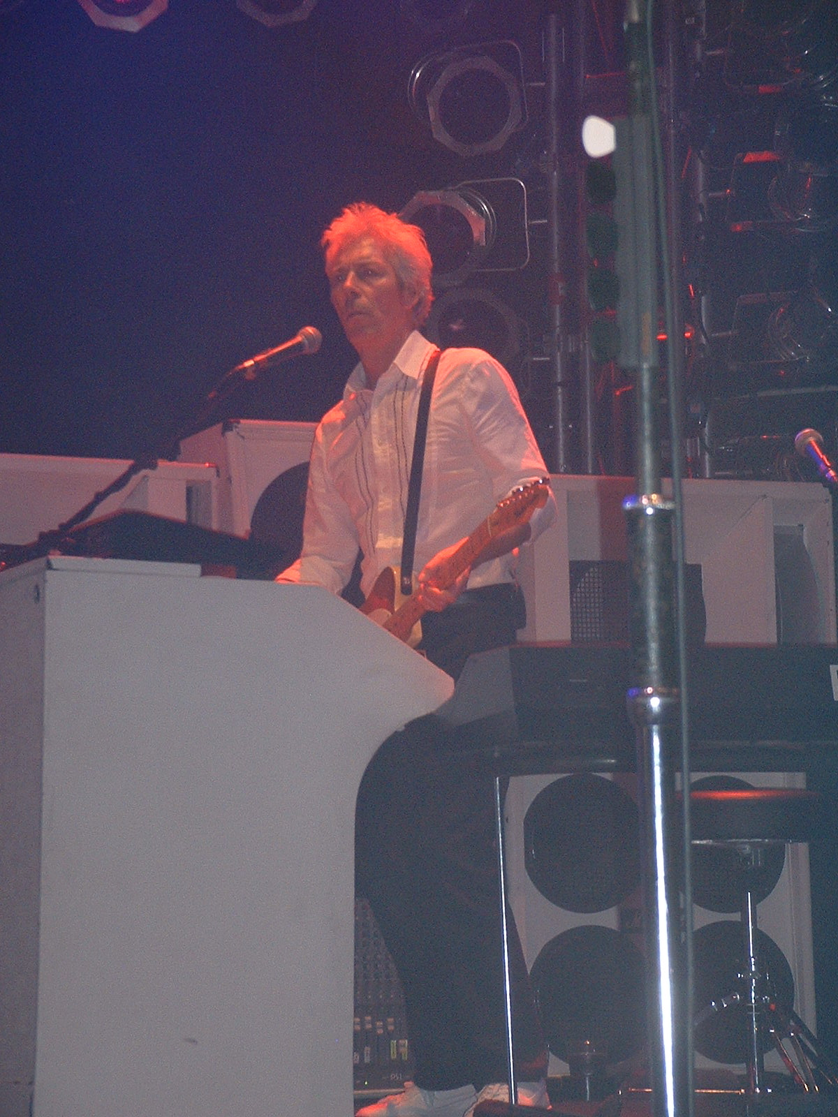 Andy Bown on stage with Status Quo in Bristol